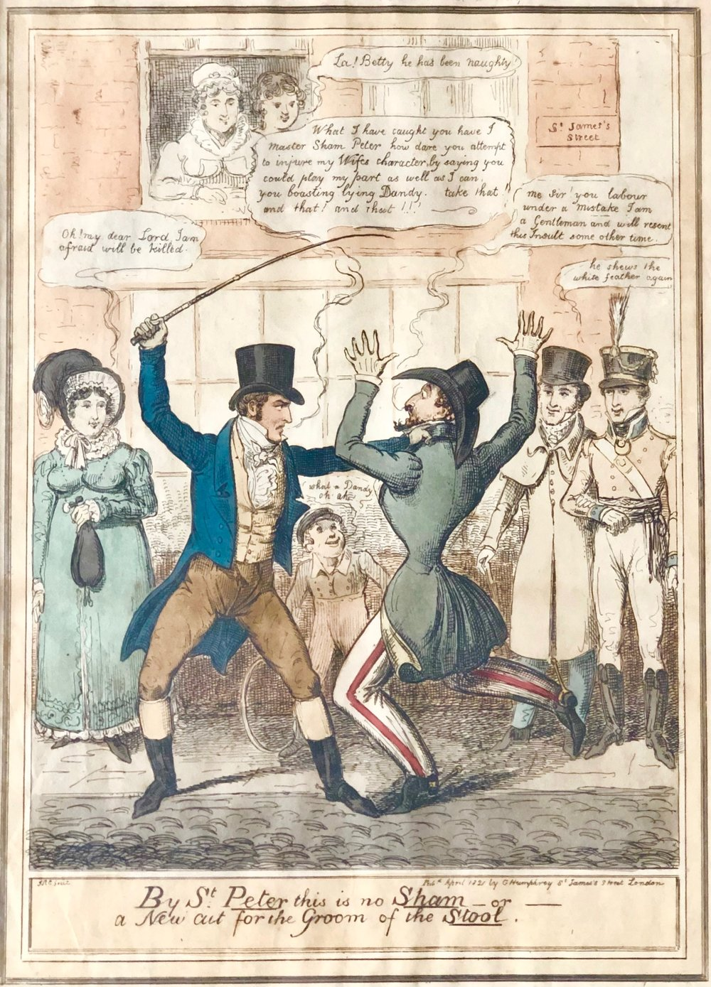 Satirical engraving of James Webster-Wedderburn (left), with a horsewhip, threatening Viscount Petersham (later Charles Stanhope, 4th Earl of Harrington). The ensuing beating led to a duel between the two men.